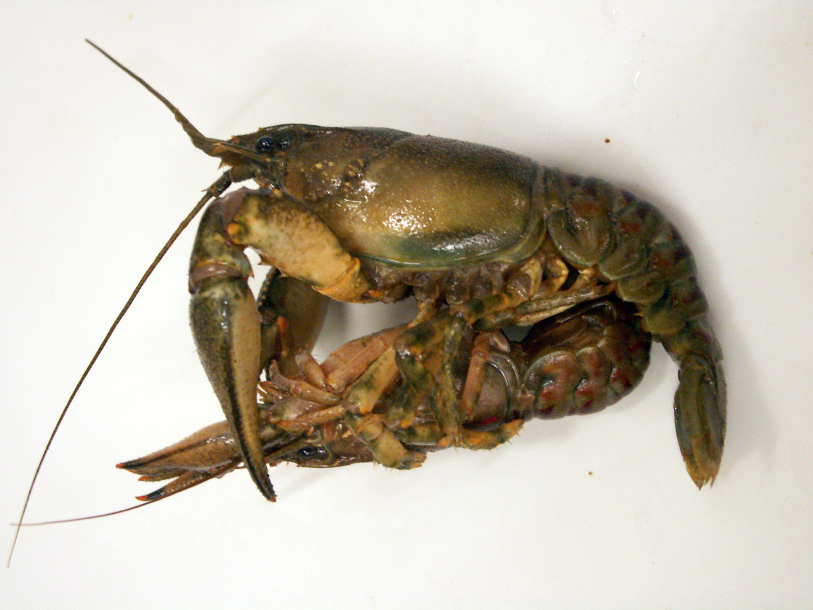 Mating in spiny-cheek crayfish (Orconectes limosus). Male is on top.